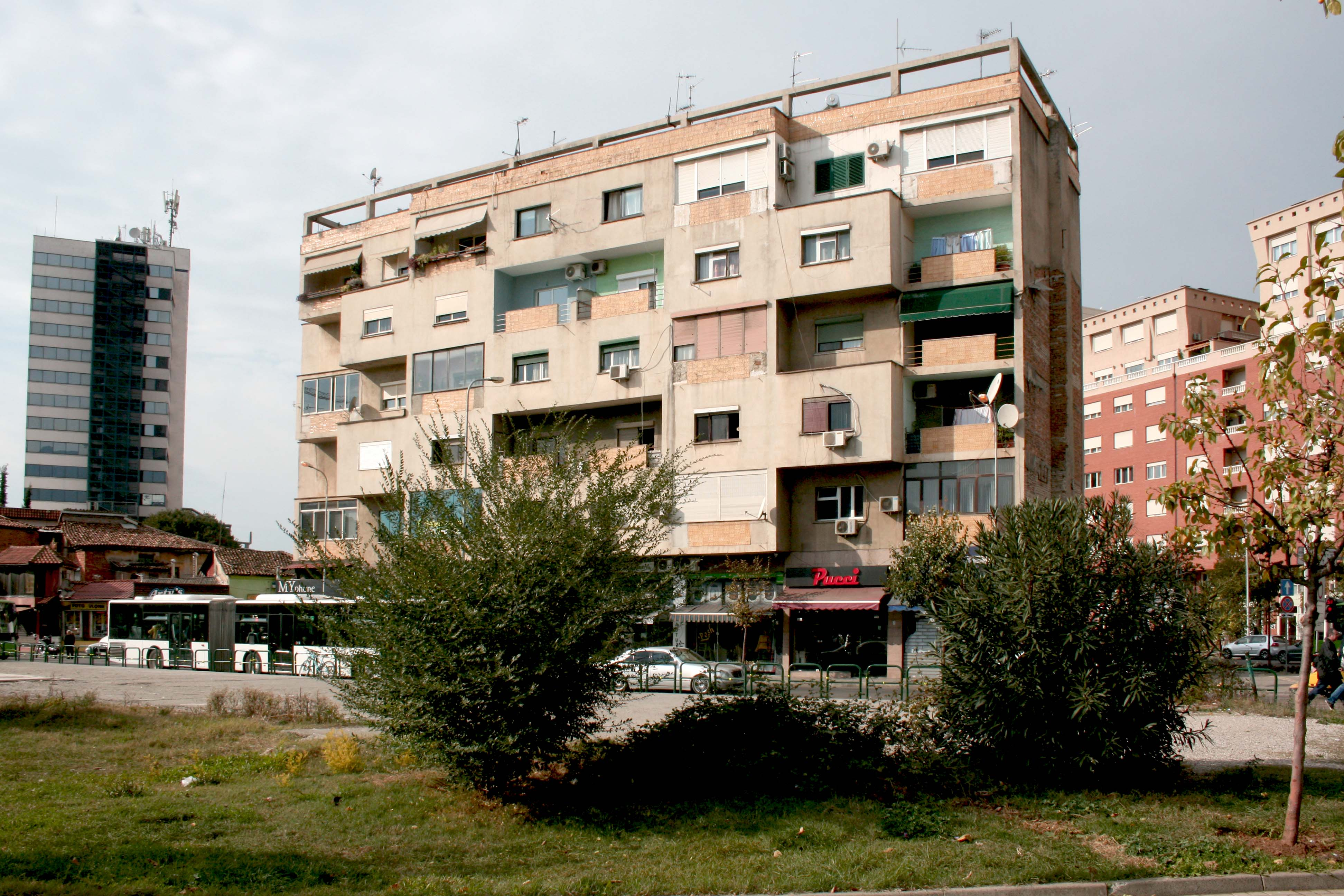 Pallati me Kuba also known from locals as Kadare’s Palace (where illustrious families like the ones of D. Agolli and I.Kadare have been living for several years) and which in architectural professional circles is considered as one of the first initiators of the ‘ modernist’ era in Tirana. Therefore it was labeled as an intentioned provocation to the official Communist art of the time. Also the building’s volumetry was perceived as with clear orientation towards ‘Kubism’ in a visible contrast with the gloomy socialist architecture prevailing that period. Today, even though it stands in one of the most visible spots of the city center, its condition provokes a state of compassion , an eyesore, where each sign of the time passing-by, is sufficiently visible from the lack of plaster in the main facades to the illegal adjacent spaces on the ground floor etc. A structure that once provoked so much reaction, today stays completely ignored and neglected. Its architect is Maks Velo